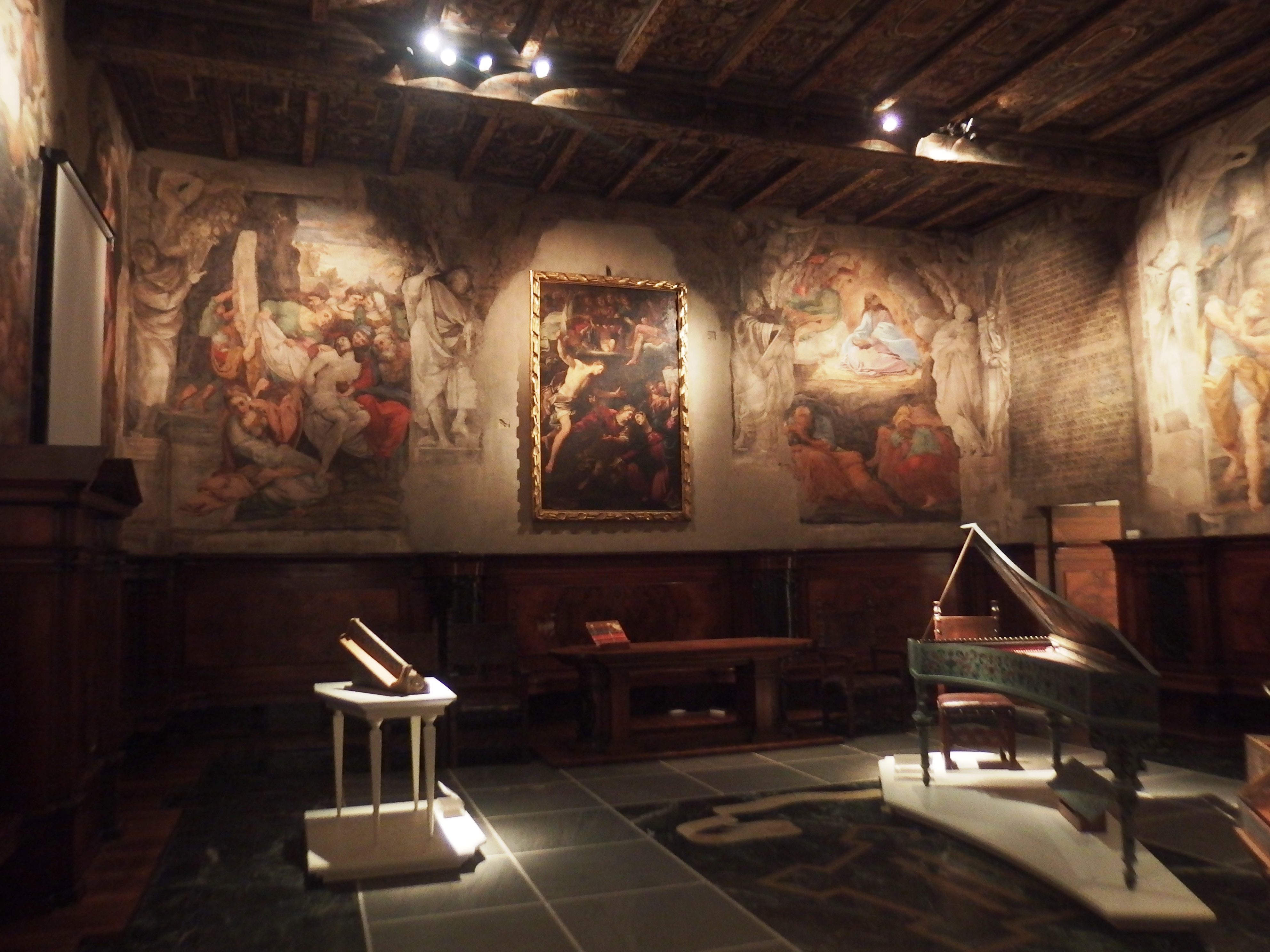 Bologna, Italy.